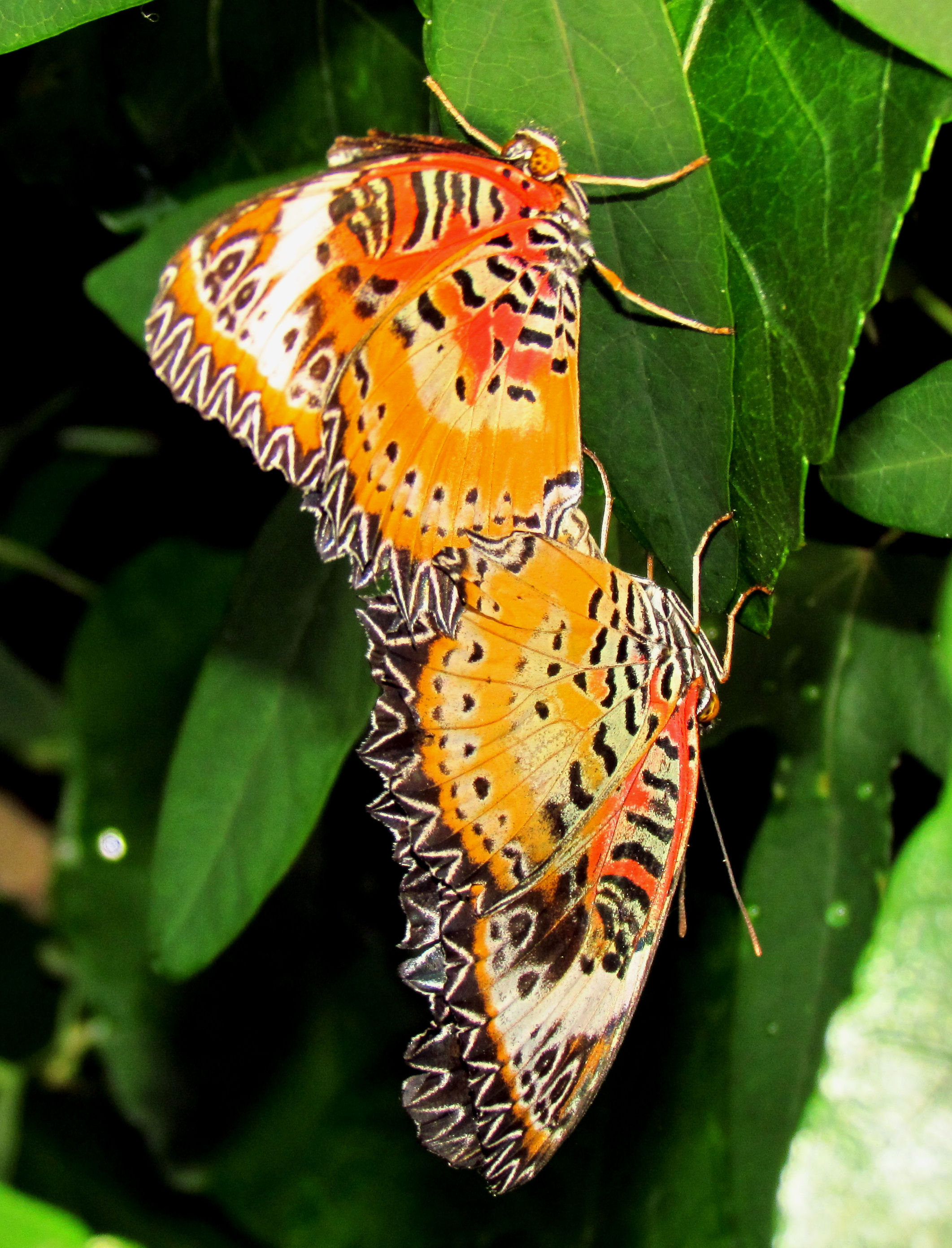 Leopard Lacewings (Cethosia cyane), coupling